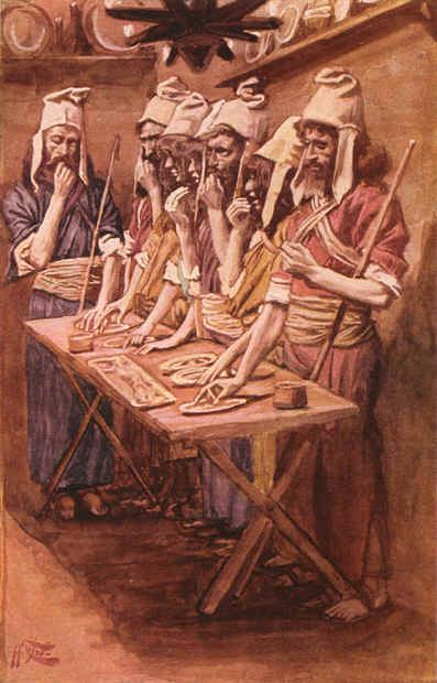 The Jews' Passover, by James Tissot (1836–1902)